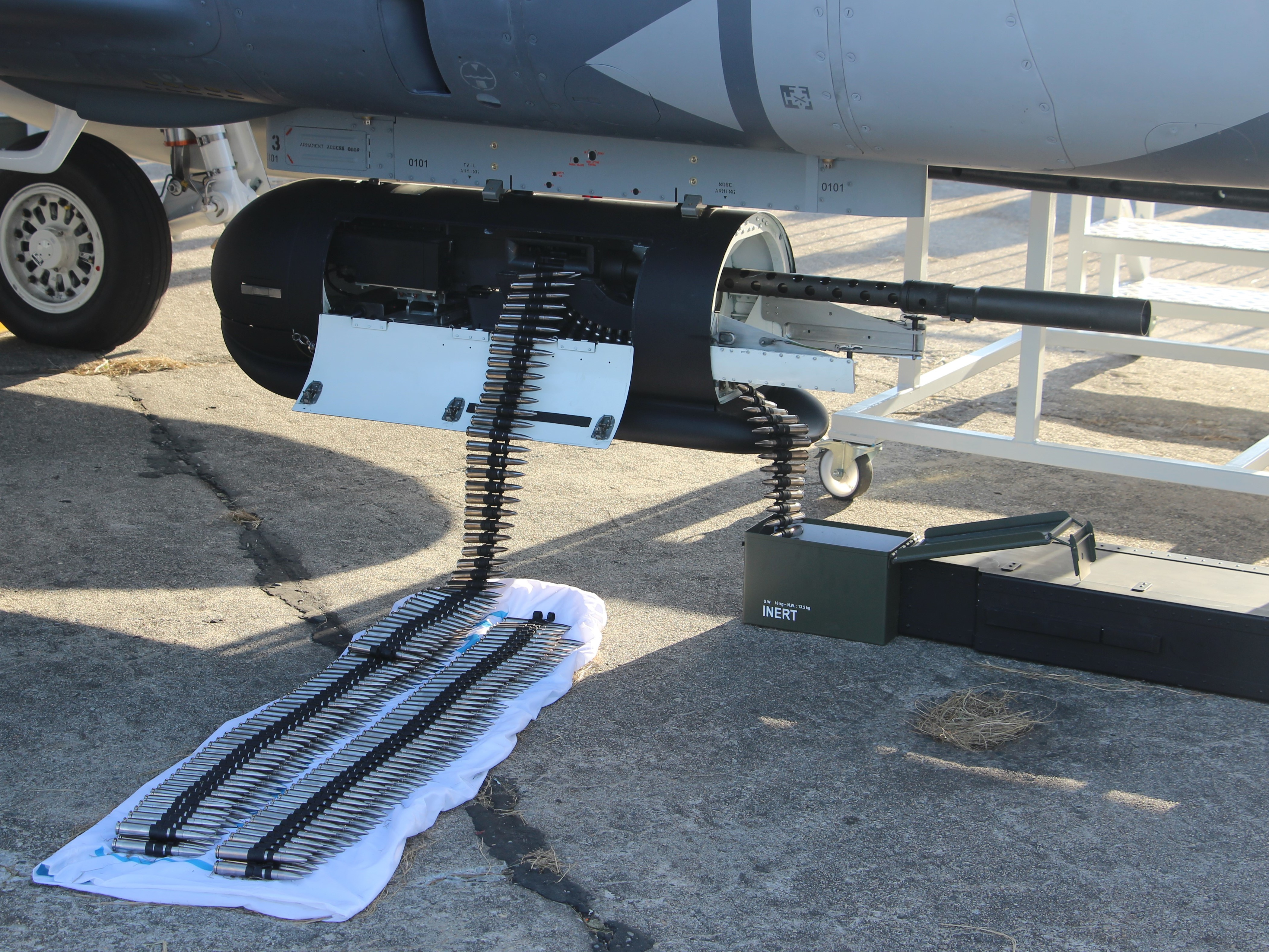 HMP 400 pod with M3P .50-caliber machine gun under the L-39NG No. 0475 (S/N 16-7001), NATO Days 2019.